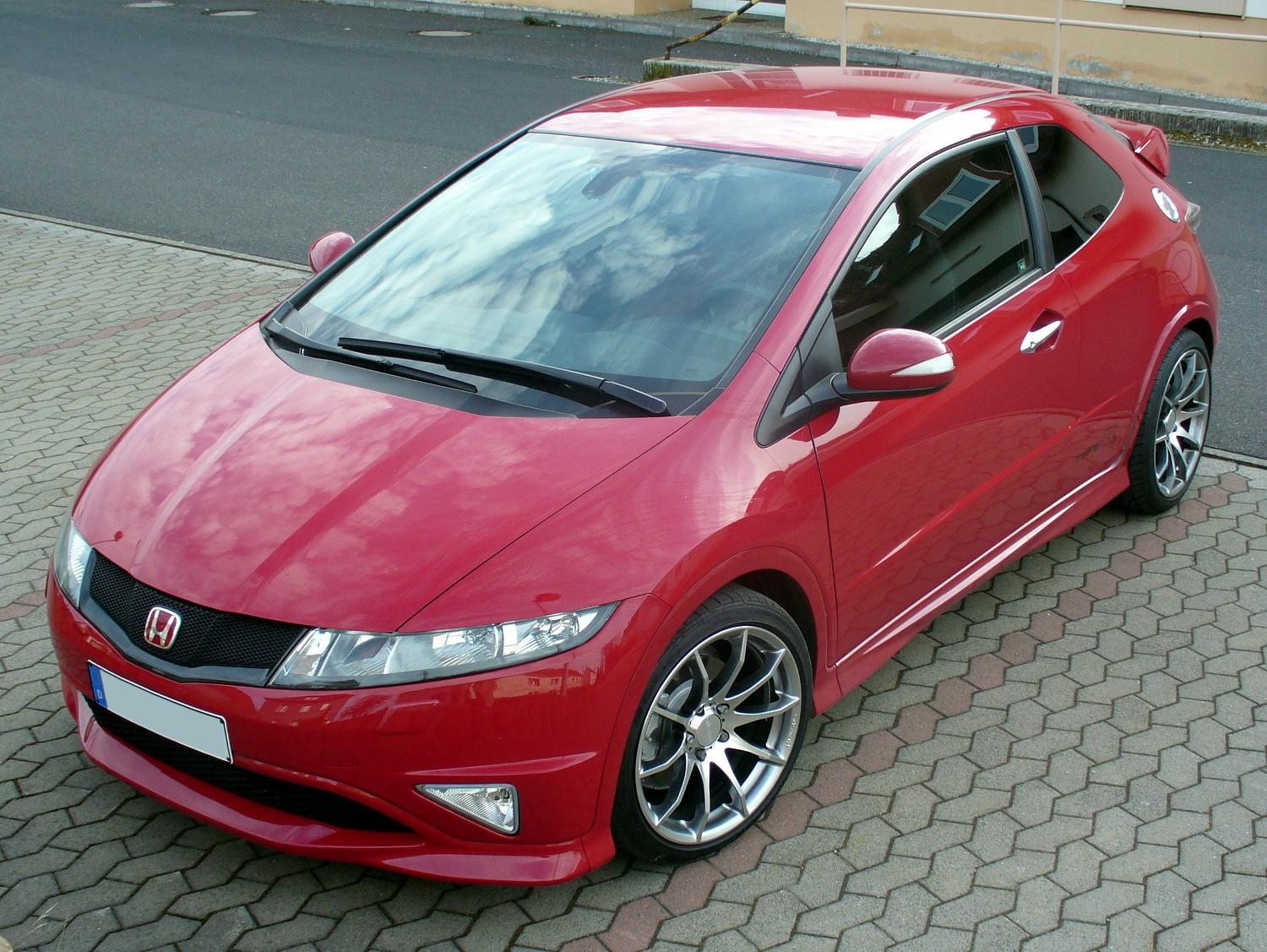 Honda Civic Type R